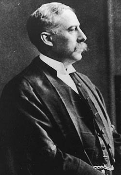 A photograph of Albert Malouin